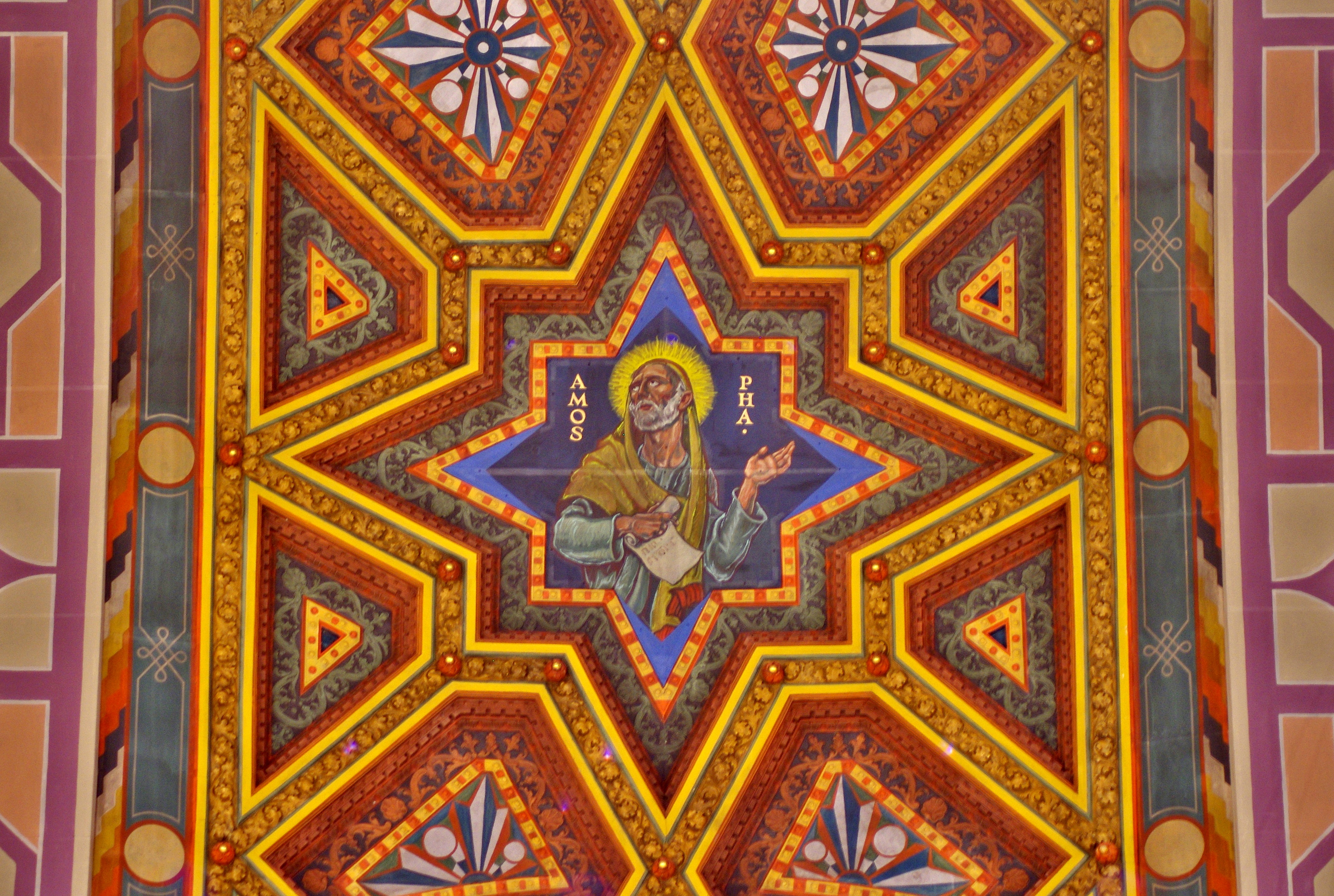 Our Lady, Queen of the Most Holy Rosary Cathedral (Toledo, Ohio) - ceiling mural of the Prophet Amos